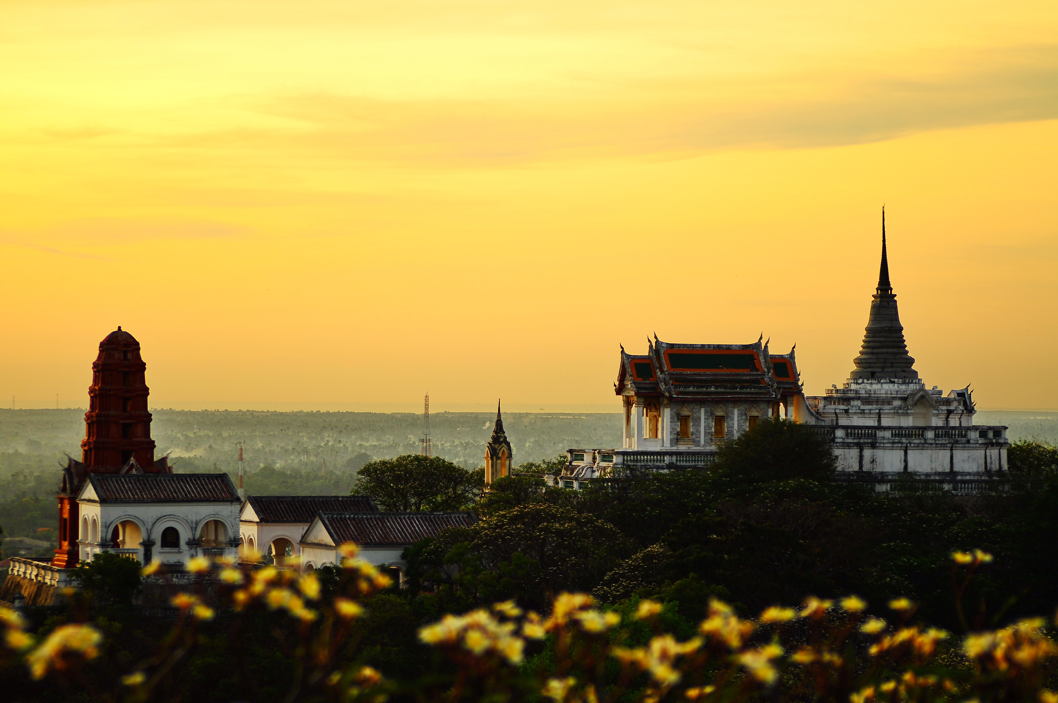 Frangipani flowers at Phra Nakhon Khiri Historical Park, Phetchaburi Province.